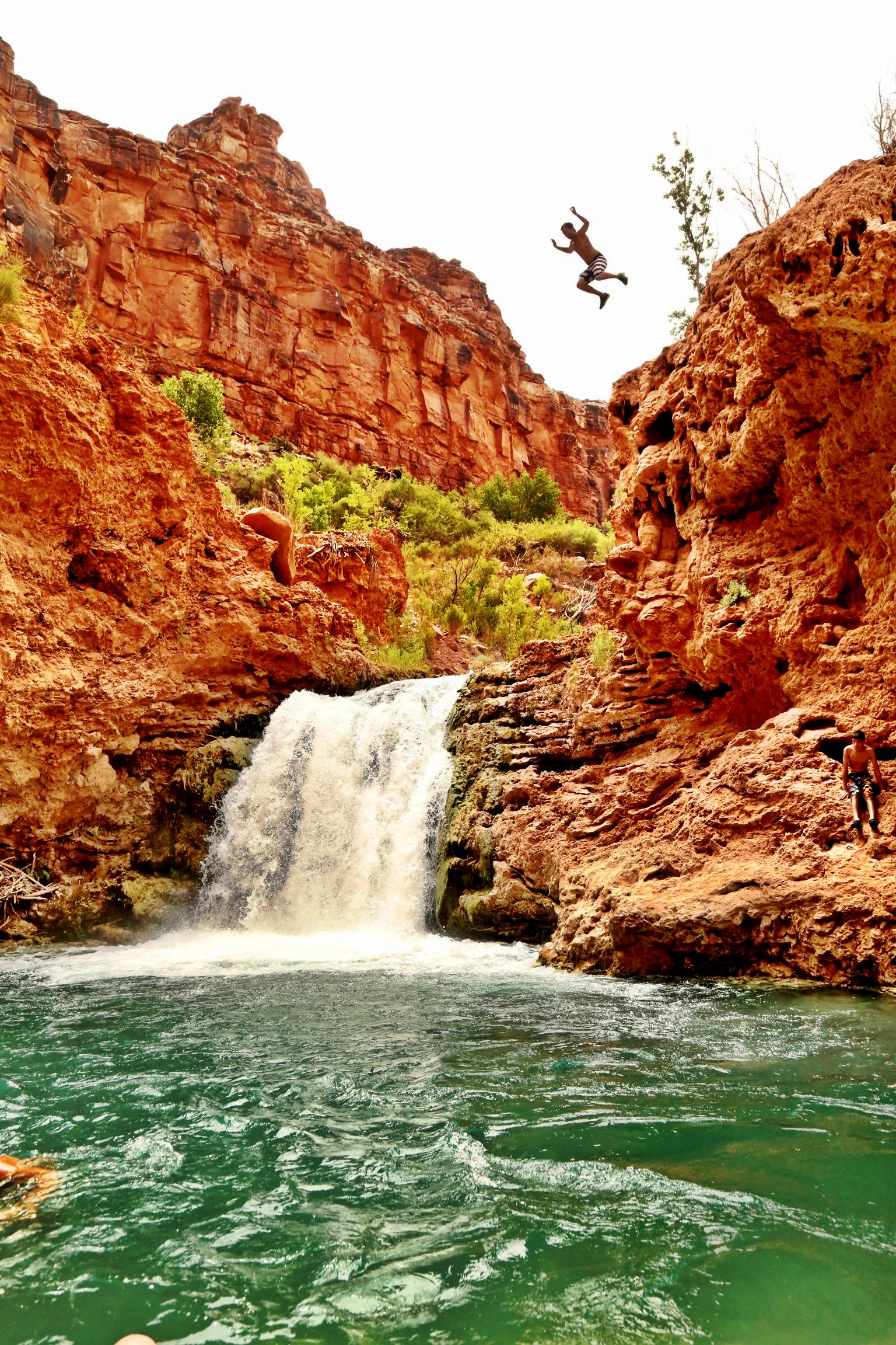 Waterfall located between Lower Navajo Falls and Havasu Falls